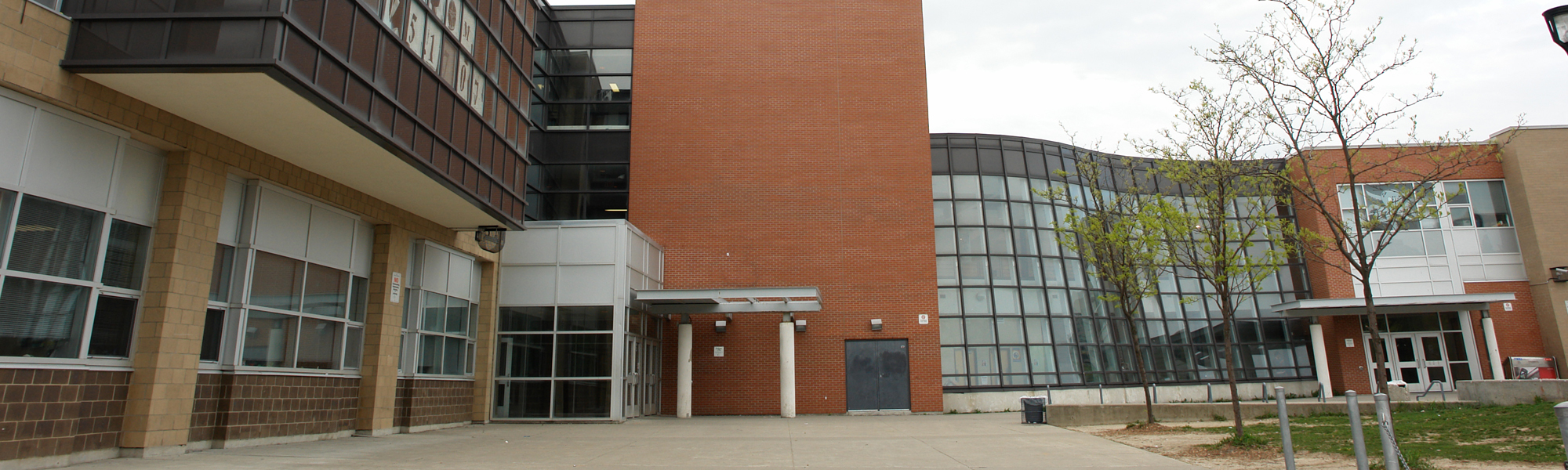 Earl Haig Secondary School view from outside.